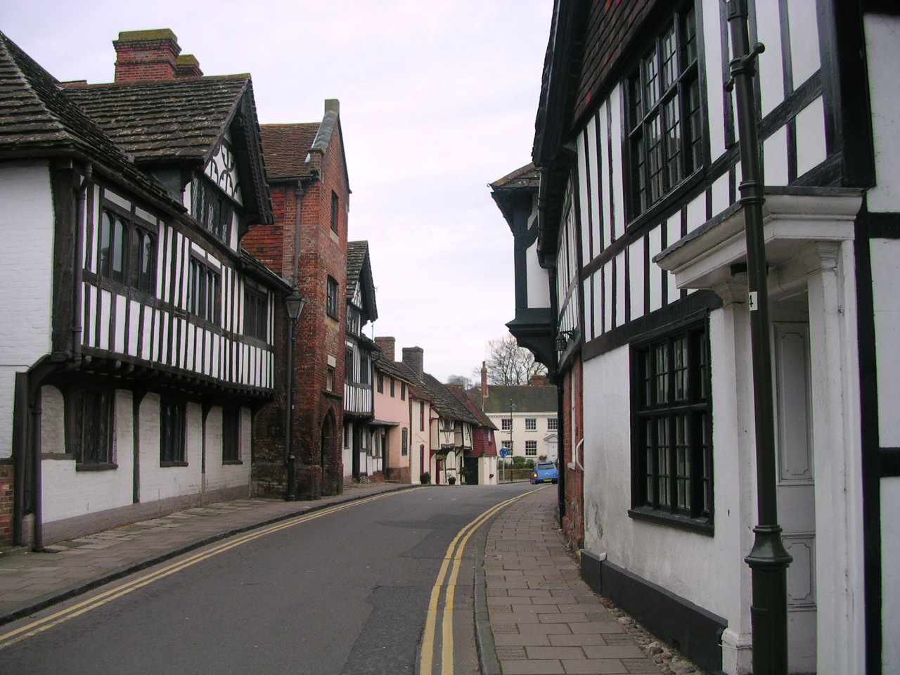 Steyning, West Sussex, England. Historic houses in Steyning